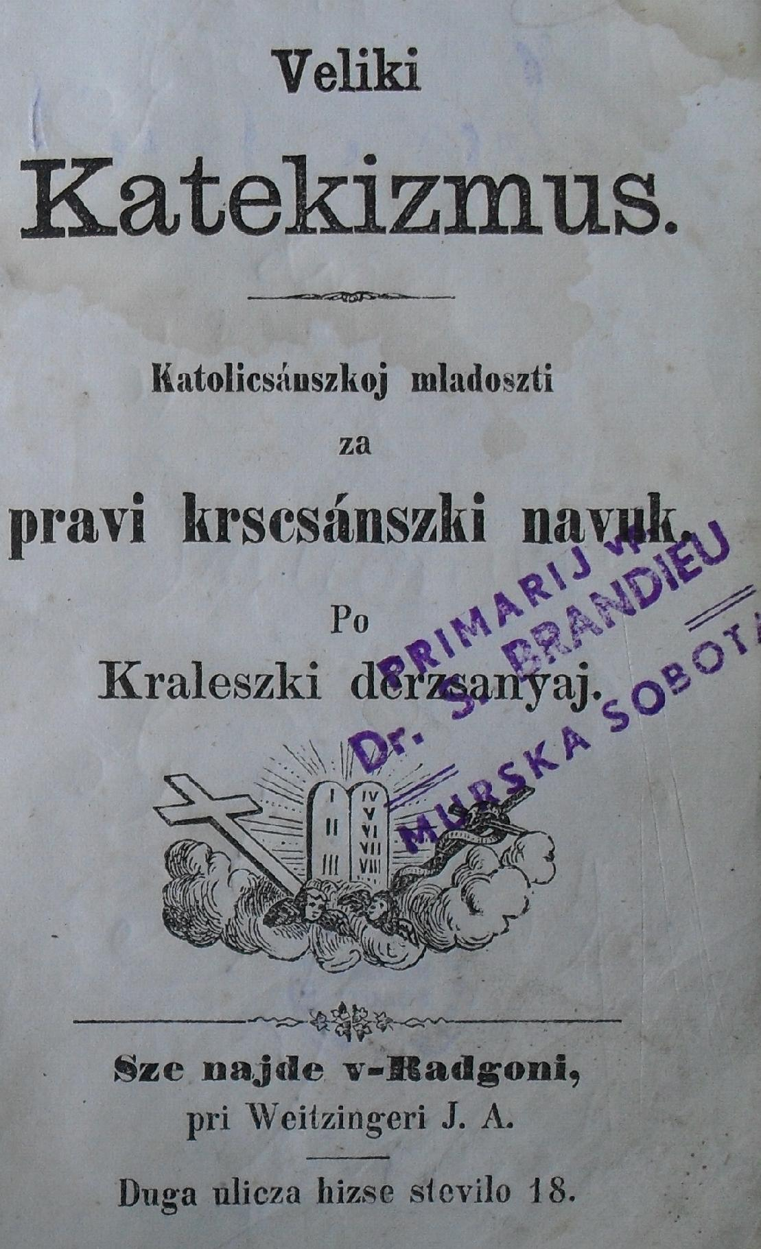 Veliki katekizmus (Great Cathecism) the rework of the prekmurian Krátka summa velikoga katekizmussa from József Borovnyák and Vendel Ratkovics in 1892. Sometime was the property of Péter Gécsek from Šalamenci.